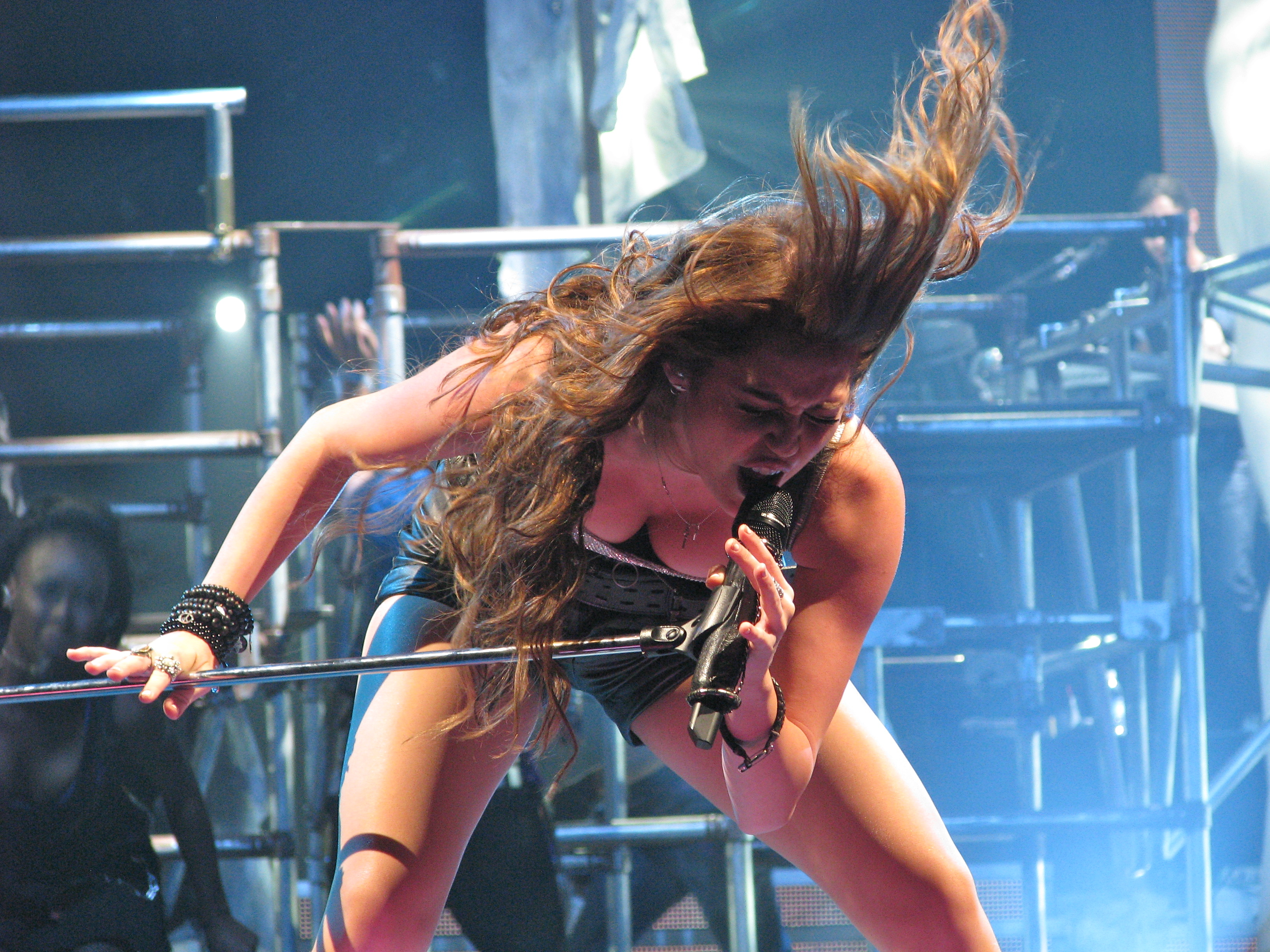 Miley Cirus singing.